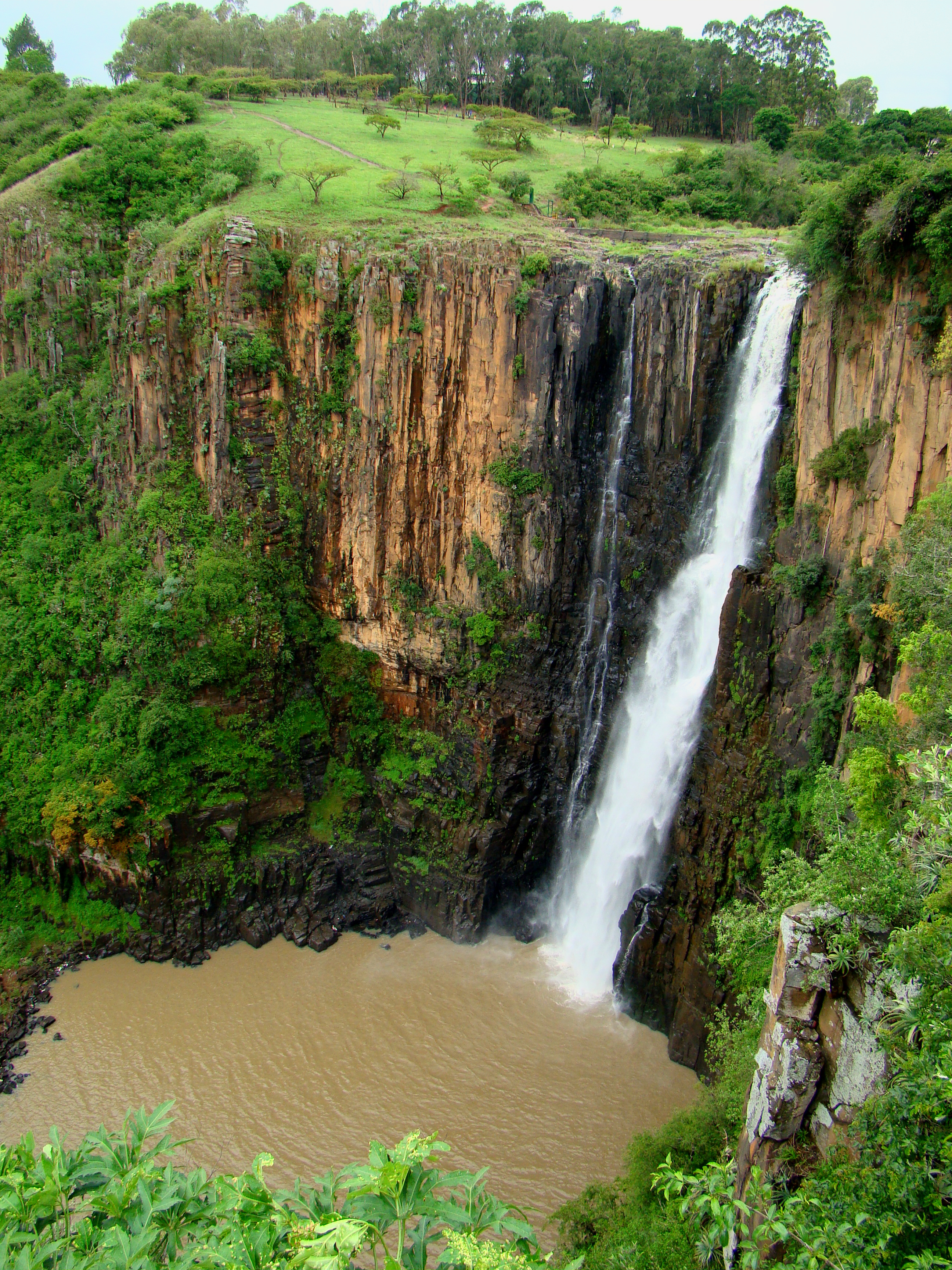 Howick Falls on the Umgeni River, South Africa, in November after a few days with some fairly heavy rain.